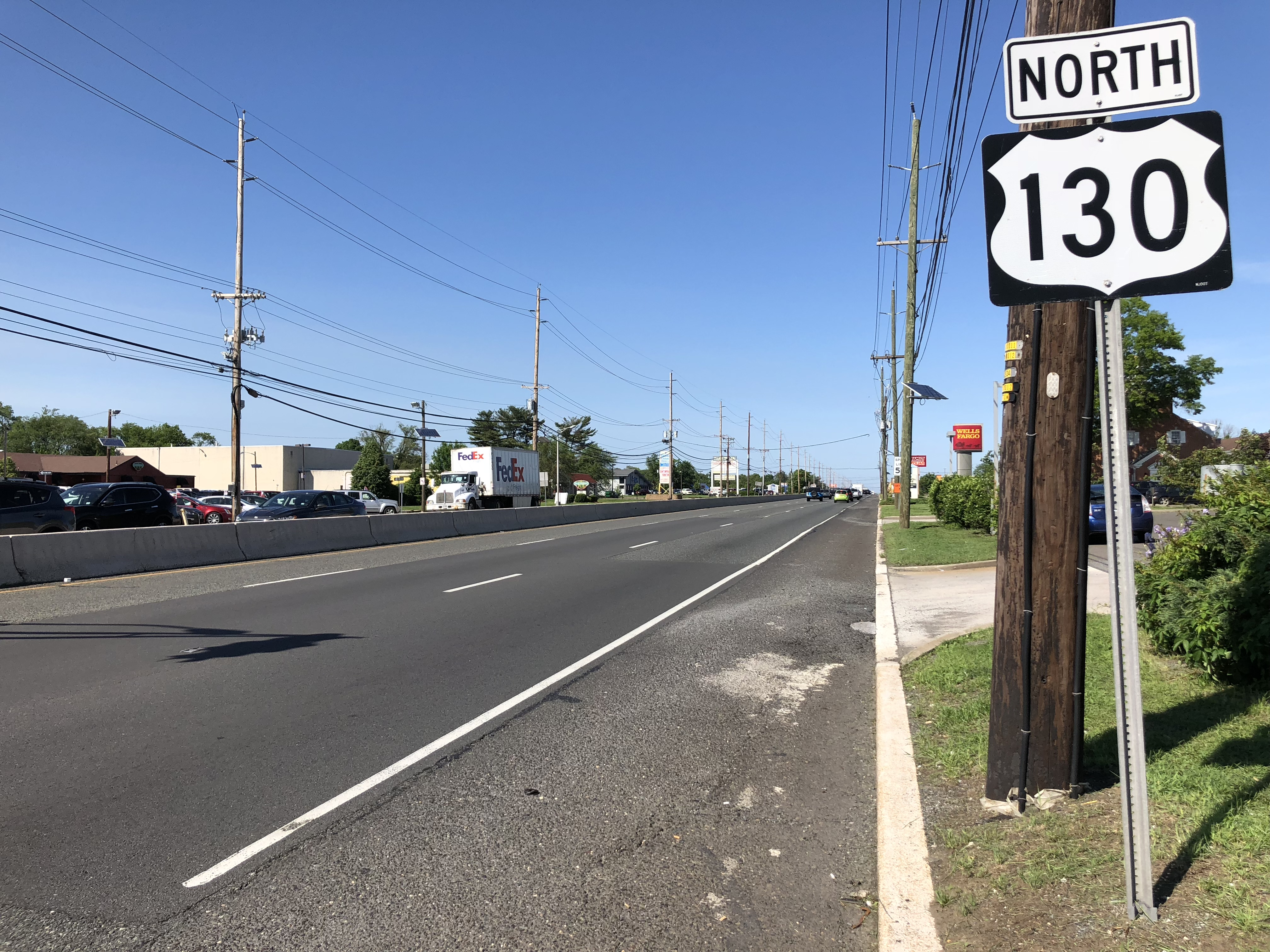 View north along U.S. Route 130 (Burlington Pike) at Burlington County Route 630 (Charleston Road/Cooper Street) on the border of Edgewater Park Township and Willingboro Township in Burlington County, New Jersey